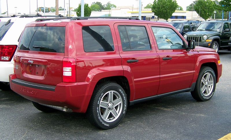 2007 Jeep Patriot, rear quarter view